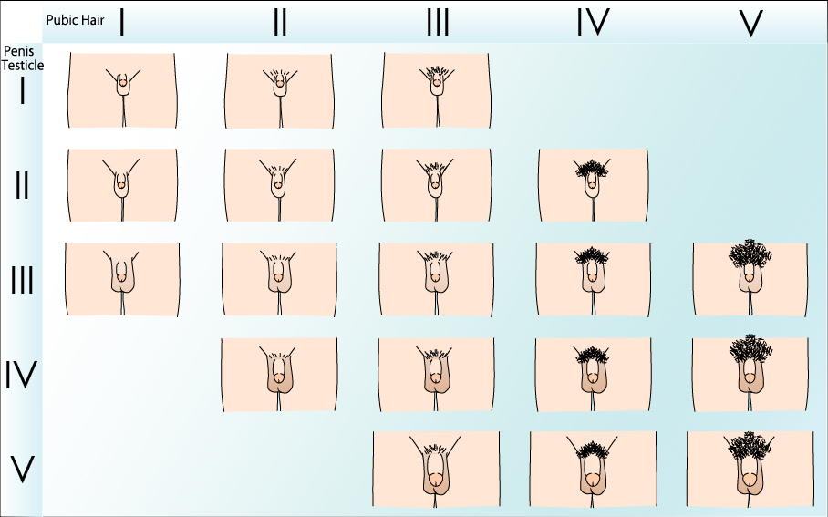 Male tanner stage matrix